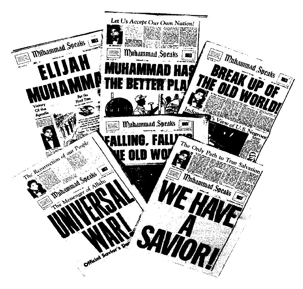 Image from the FBI monograph of the Nation of Islam (1965): Typical Front Pages of Cult Newspaper